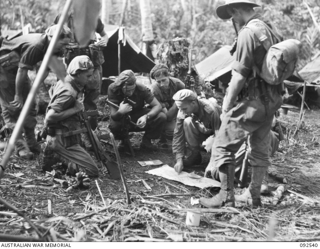 Troops from the Australian 26th Infantry Battalion receive a brief from a lieutenant prior to a patrol around the Ratsua area of Bougainville, 24 May 1945